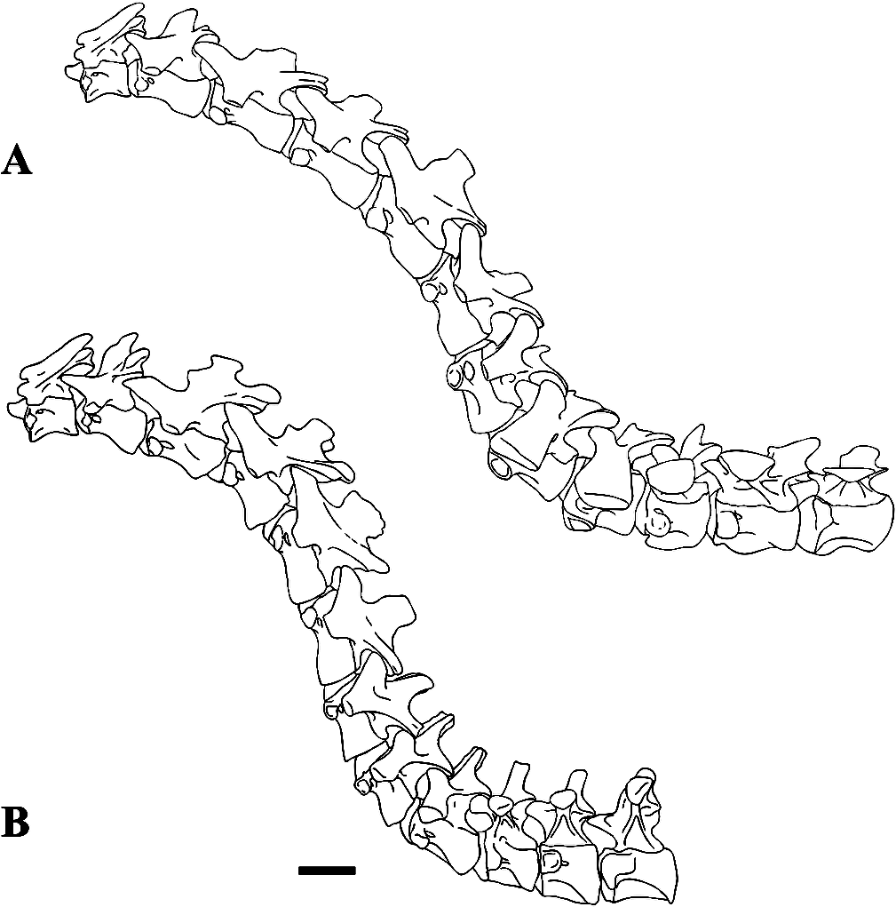 Neck reconstructions of Sigilmassasaurus and Baryonyx. (A) Sigilmassasaurus; (B) Baryonyx. Scale bar equals 10 cm. Scale bar only applies to Baryonyx, for which associated material is preserved. Reconstructions are based on the holotype material for Baryonyx, and material discussed in this paper for Sigilmassasaurus. Note that the first vertebra depicted is the C2 (axis), and that reconstruction includes anterior dorsal vertebrae.